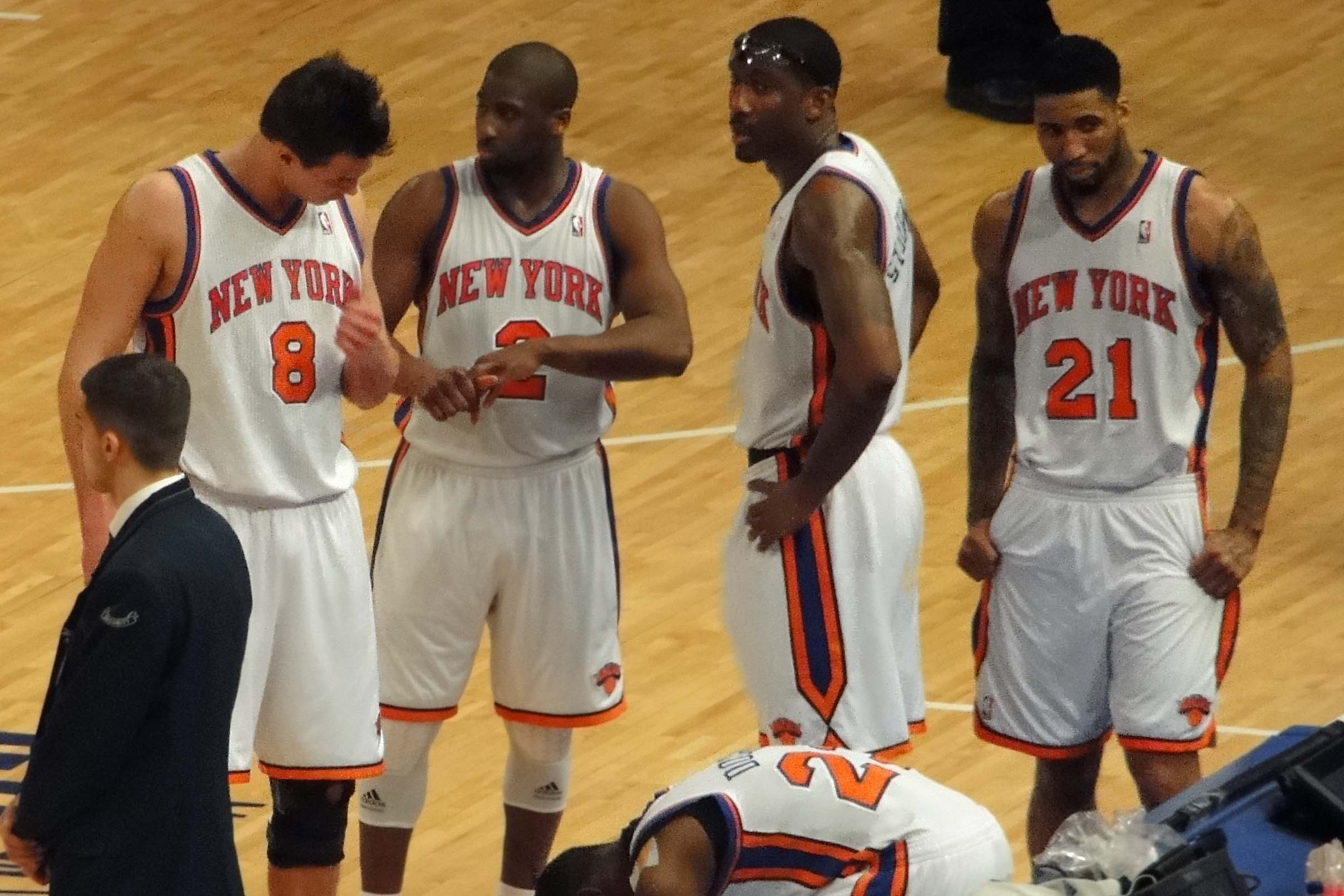 Danilo Gallinari, Raymond Felton, Amar'e Stoudemire, Wilson Chandler and Toney Douglas (bending down) of the New York Knicks, on January 27, 2011, against the Miami Heat.